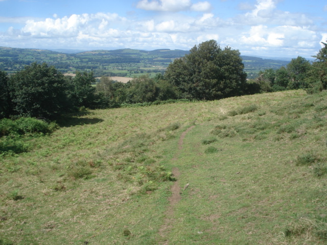 Hill fort at Ffridd Faldwyn, near to Montgomery, Powys, Great Britain. Looking northwards. The outer ditch is the circle of trees.